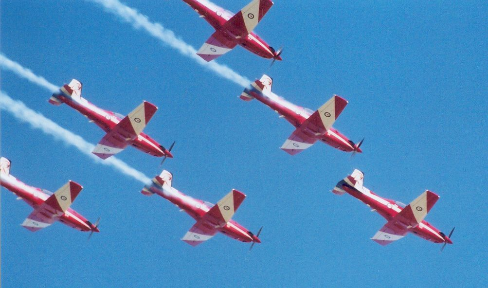 RAAF Roulettes aerobatic squadron in Canberra for the 60th anniversary of VP day, 2005. Scanned from photo taken with a Pentax MZ-50 with 300mm zoom lens